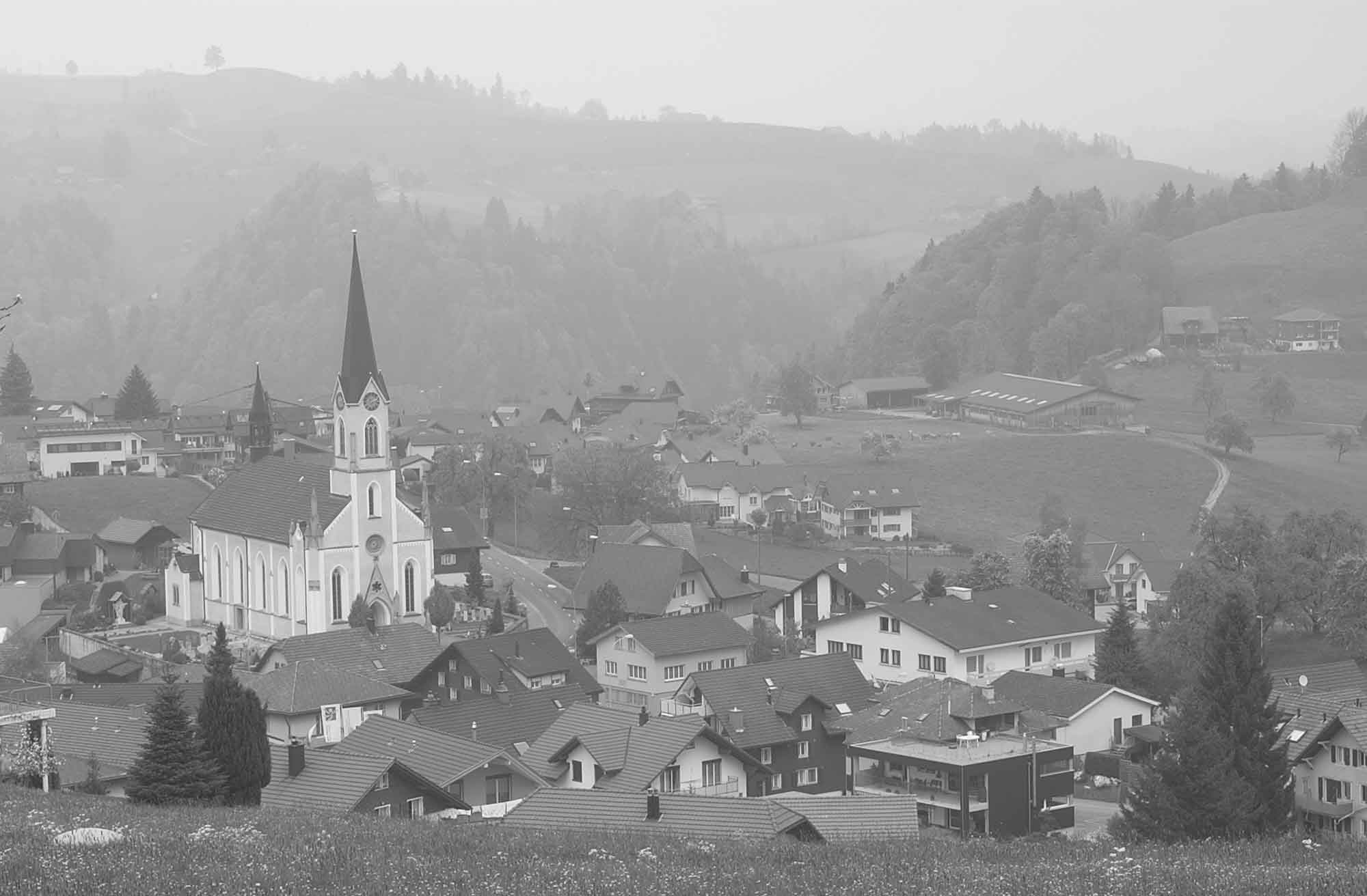 Doppleschwand